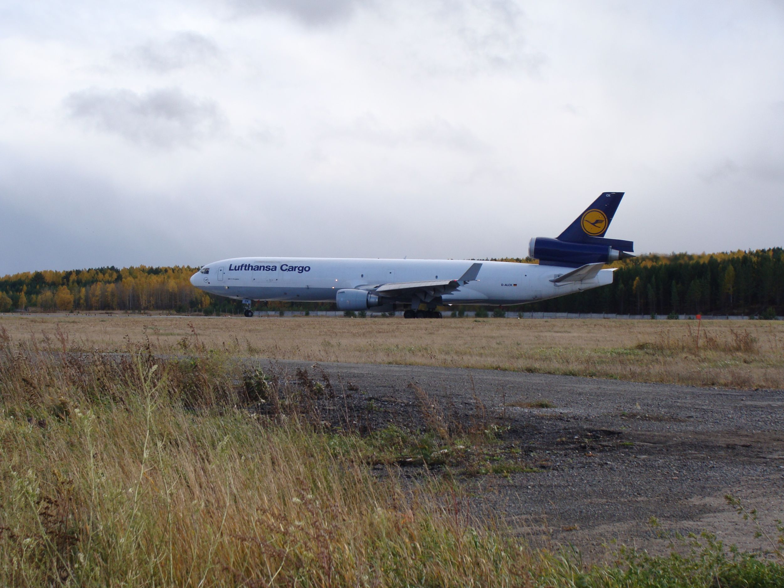 Lufthansa Cargo Krasnoyarsk